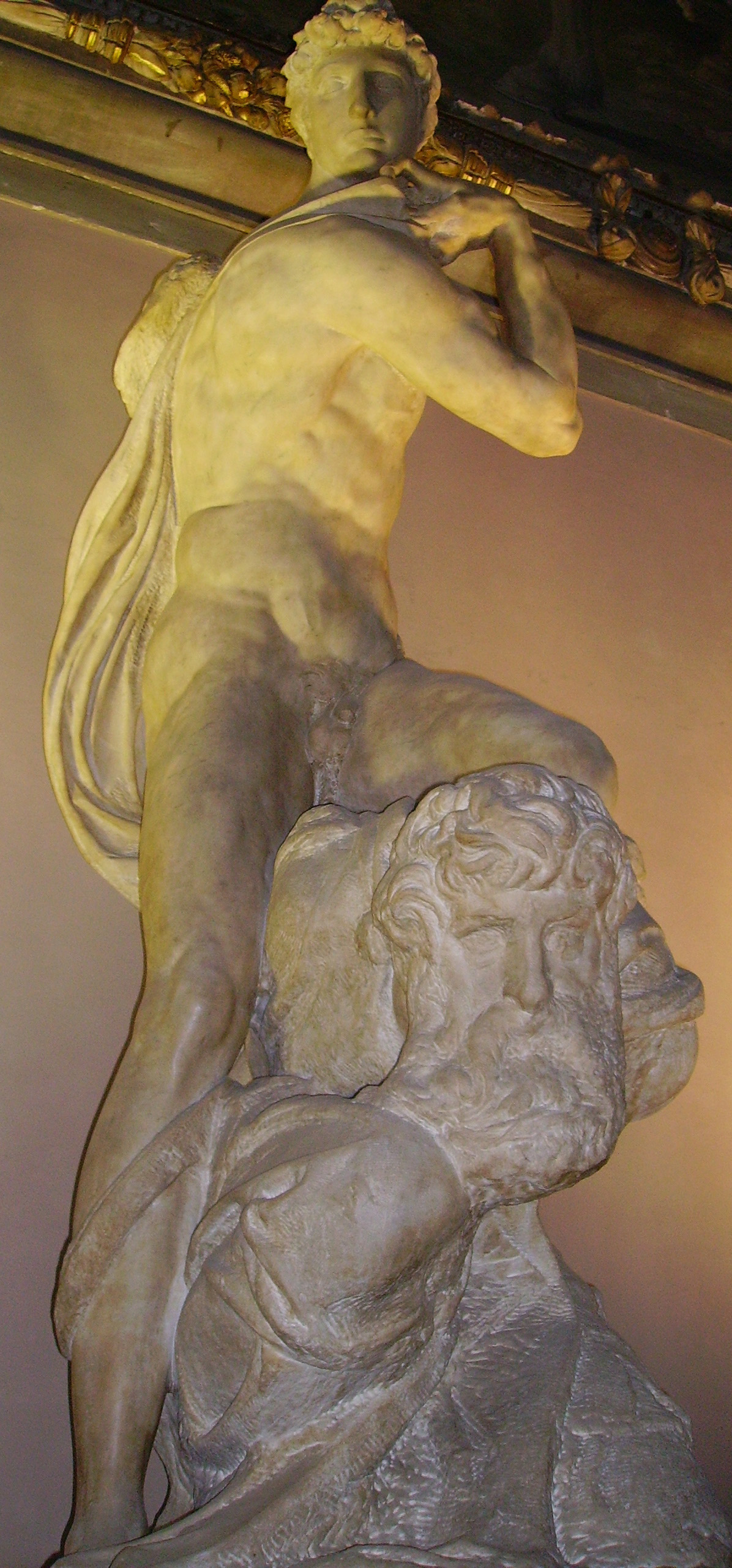 Michelangelo's Genius of Victory